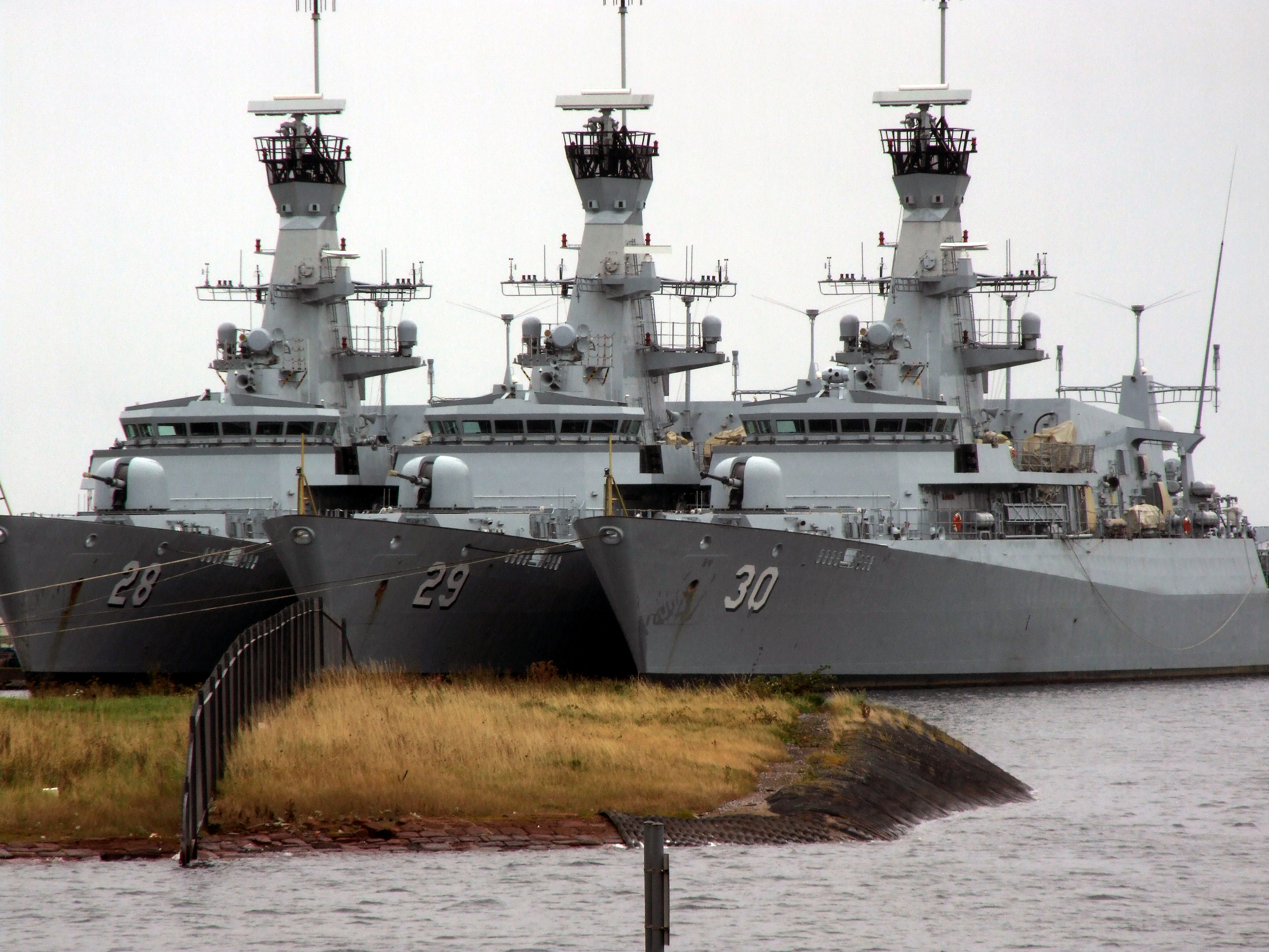 Three corvettes at the port of Barrow-in-Furness